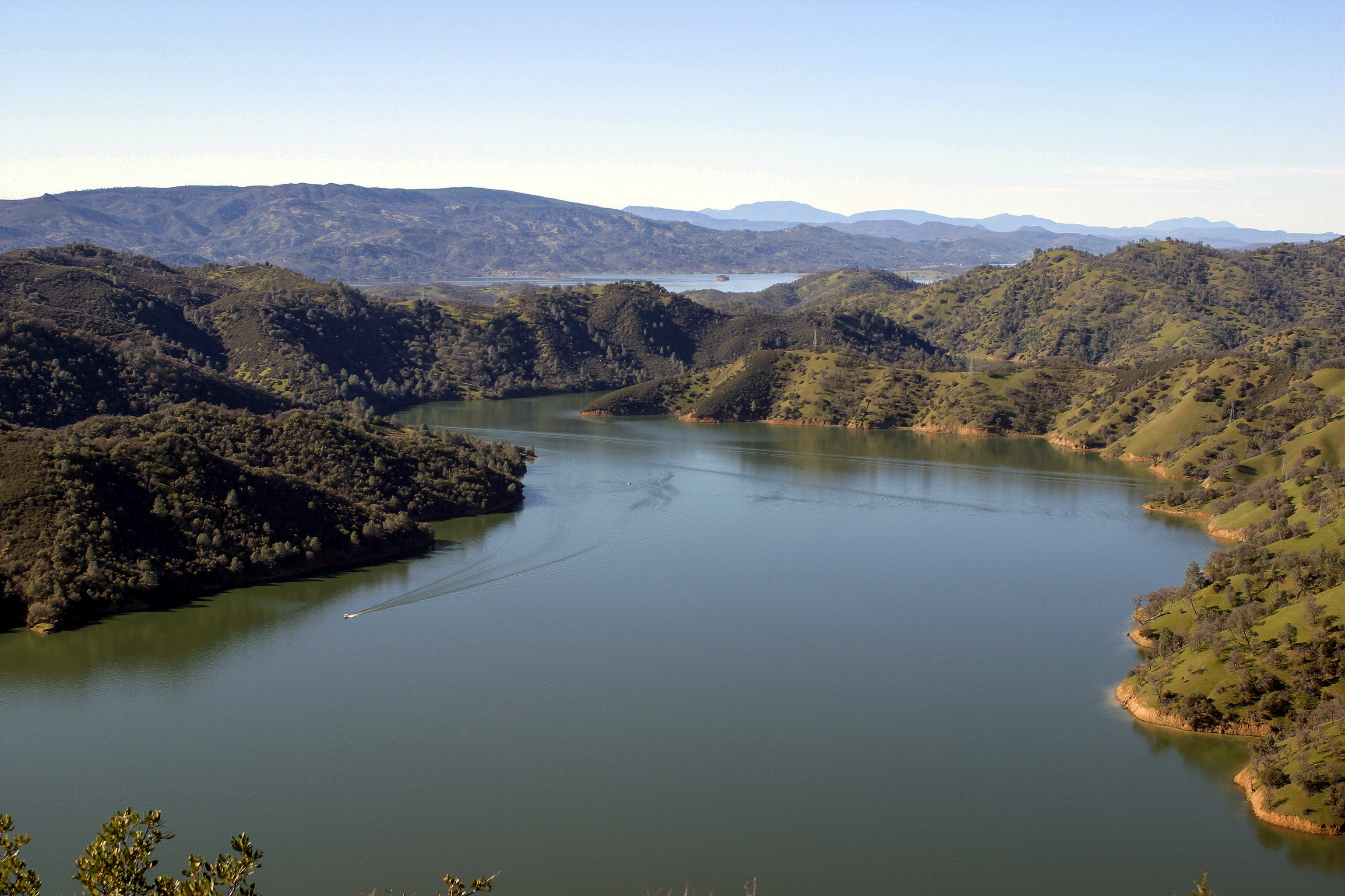 View of California's Lake Berryessa.